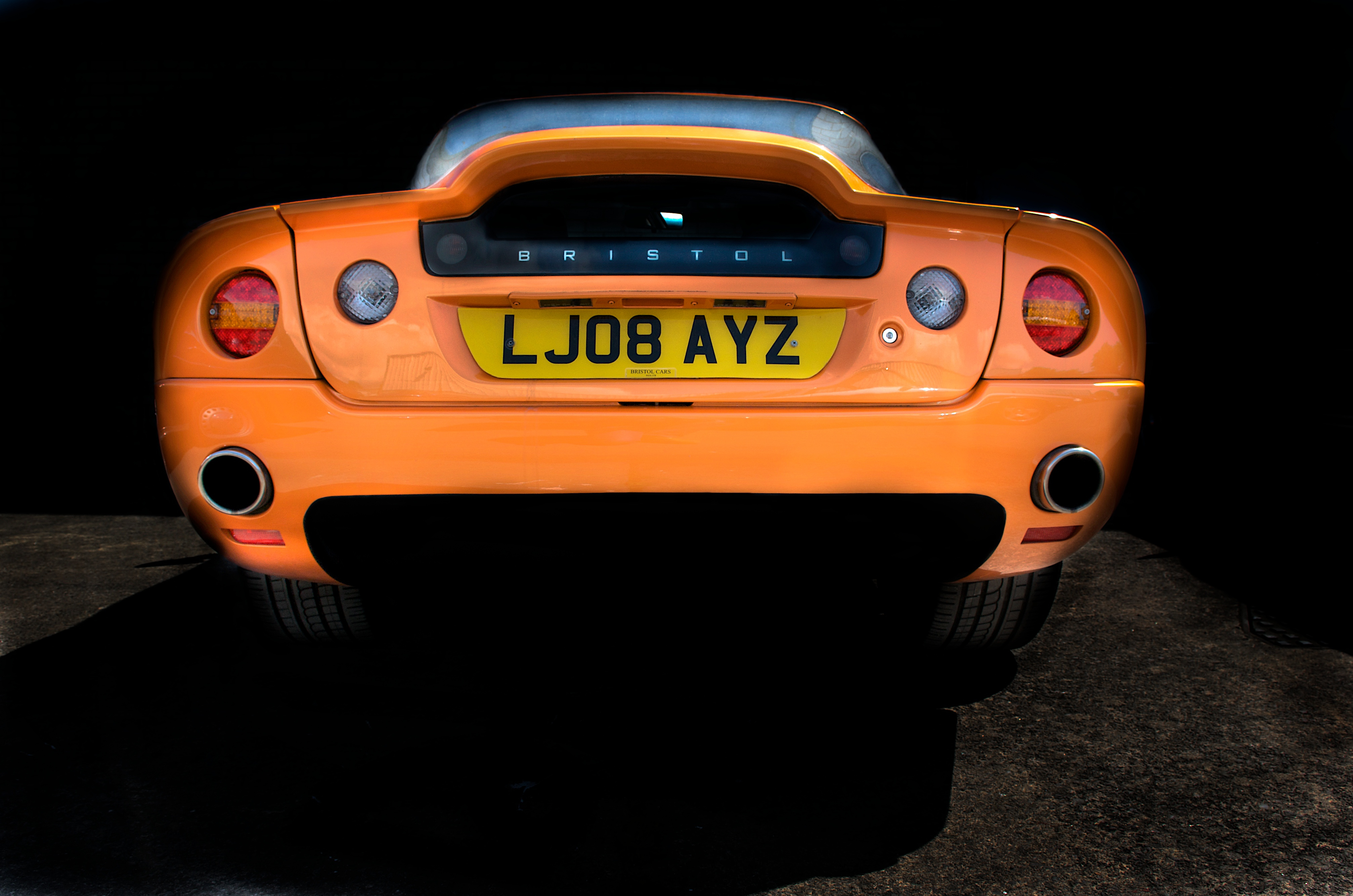 Bristol Fighter, a handbuilt supercar with a top speed of 210mph or 225mph in 'S' spec. It is also available in a 1024HP quad turbo 'T' spec. Built at Filton in Bristol